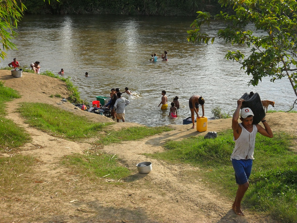 The river Aracataca